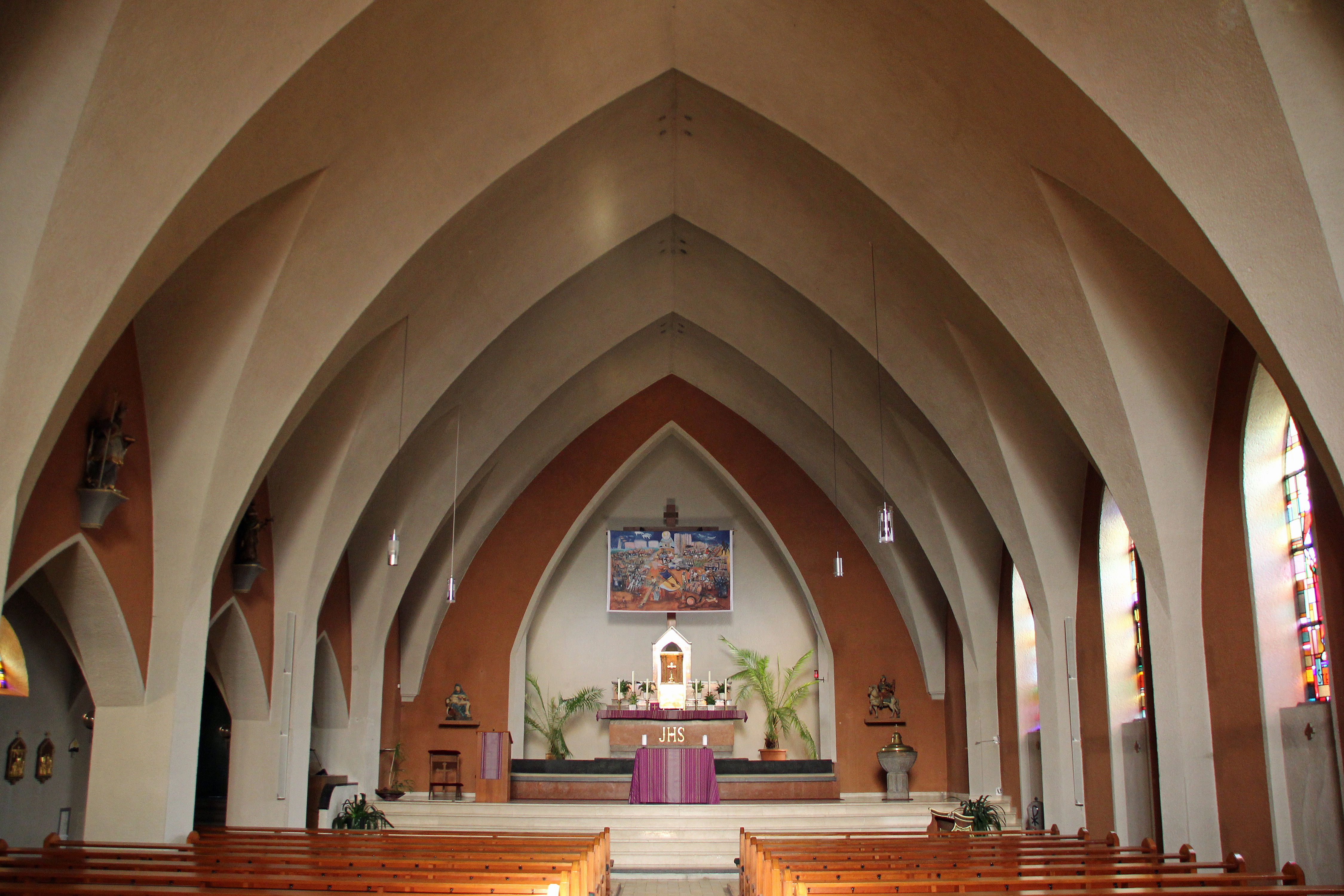 St. Martin church in Koblenz-Kesselheim